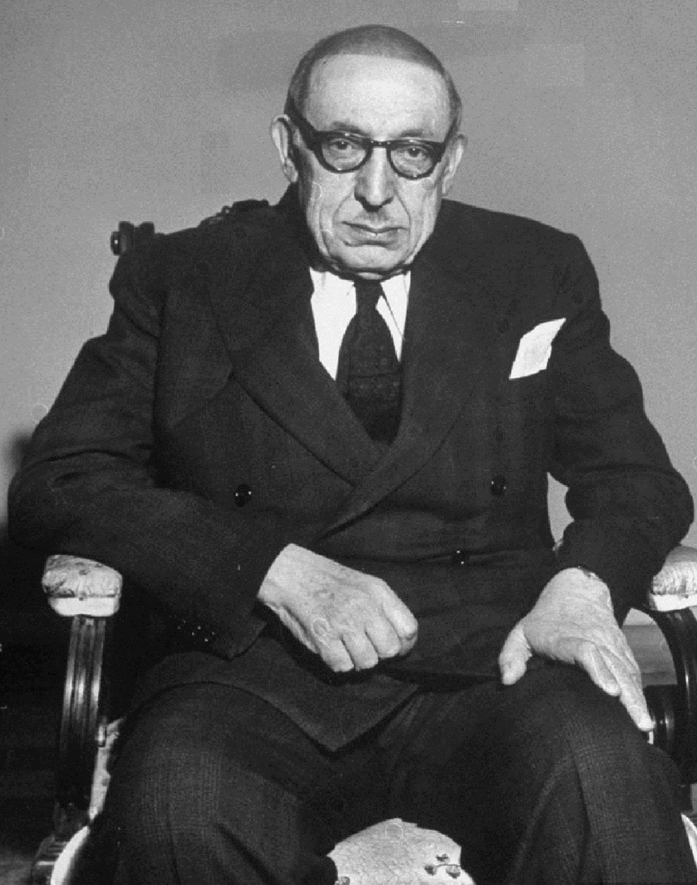 Ahmad Qavam (Qavām os-Saltaneh)